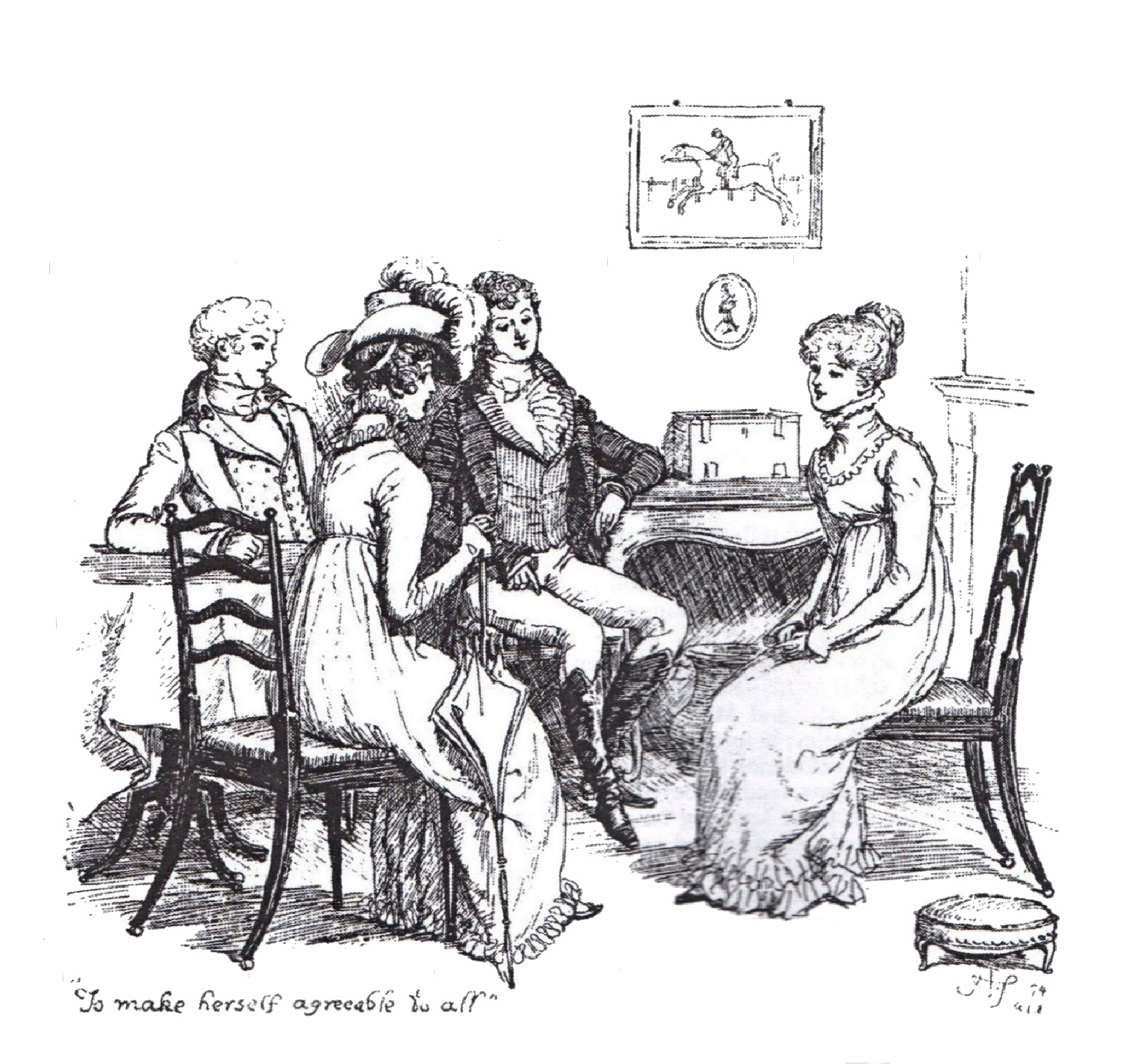 Illustration for Pride and Prejudice, ch. 44 : "To make herself agreeable to all".